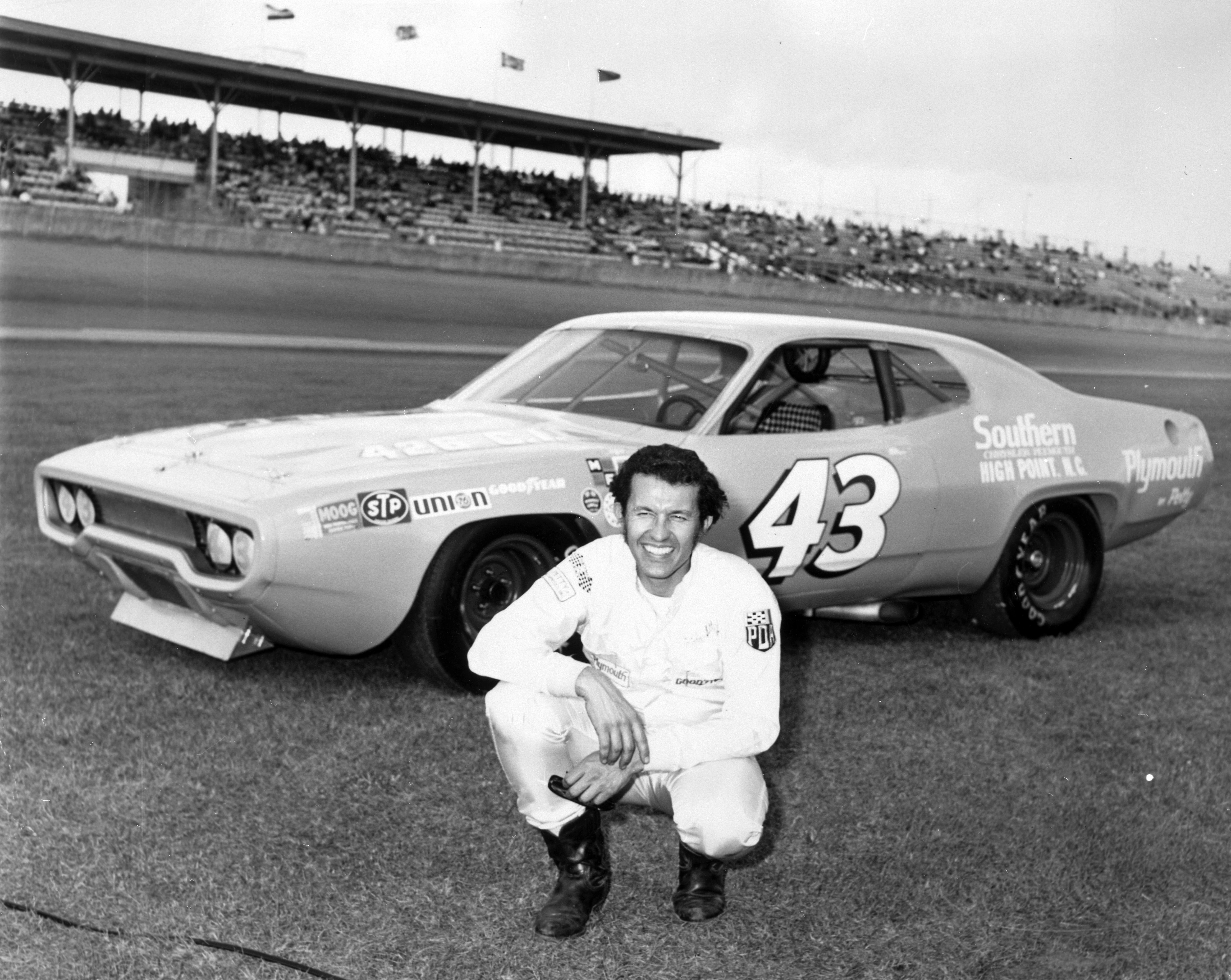 From the General Negative Collection. Courtesy of the State Archives of North Carolina.